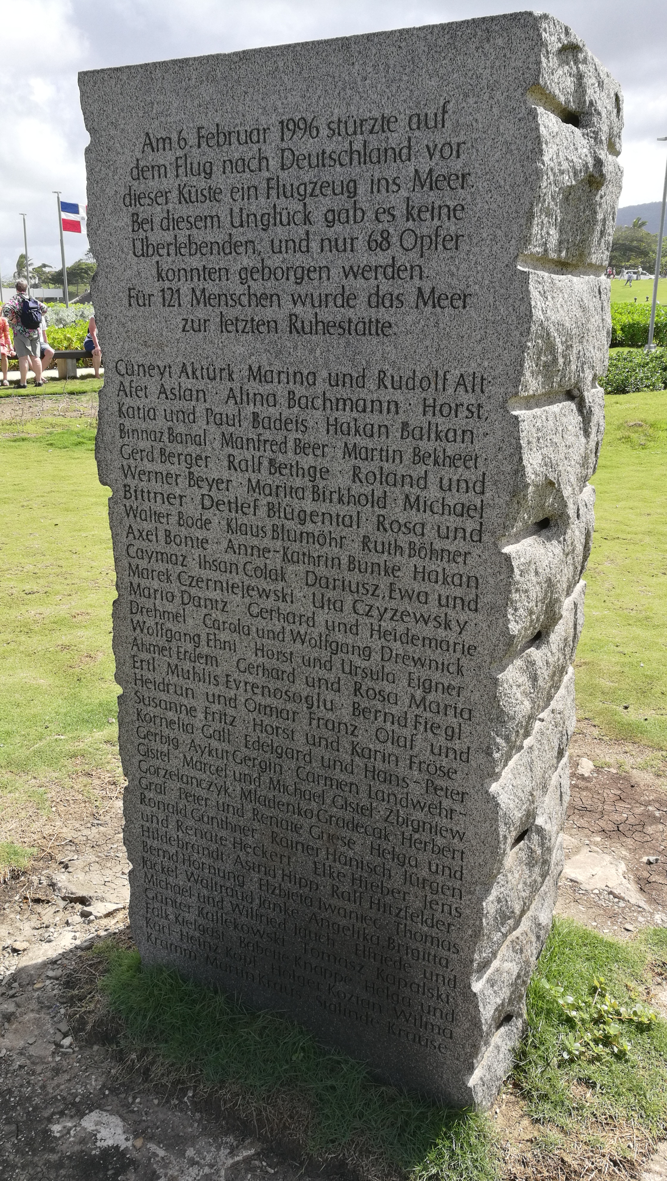 The German side of the Birgenair Flight 301 Memorial located at Puerto Plata